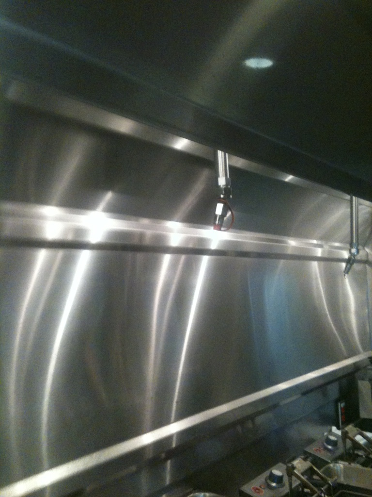 Ansul fire suppression system in the Fawcett Memorial Hosptial cafeteria, Port Charlotte, Florida.